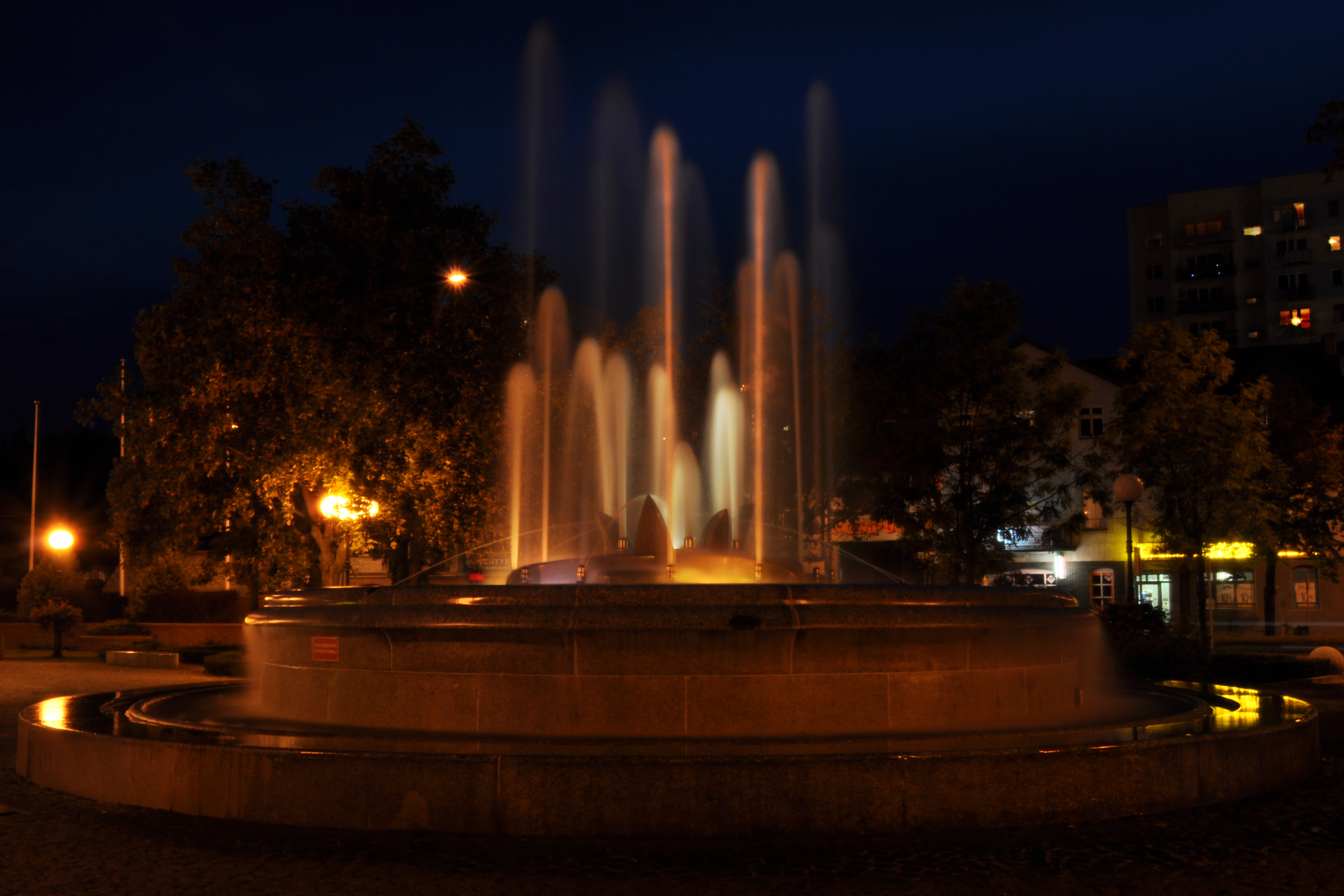 The fountain located in center of Słubice (Poland), about Plac Przyjaźni street.